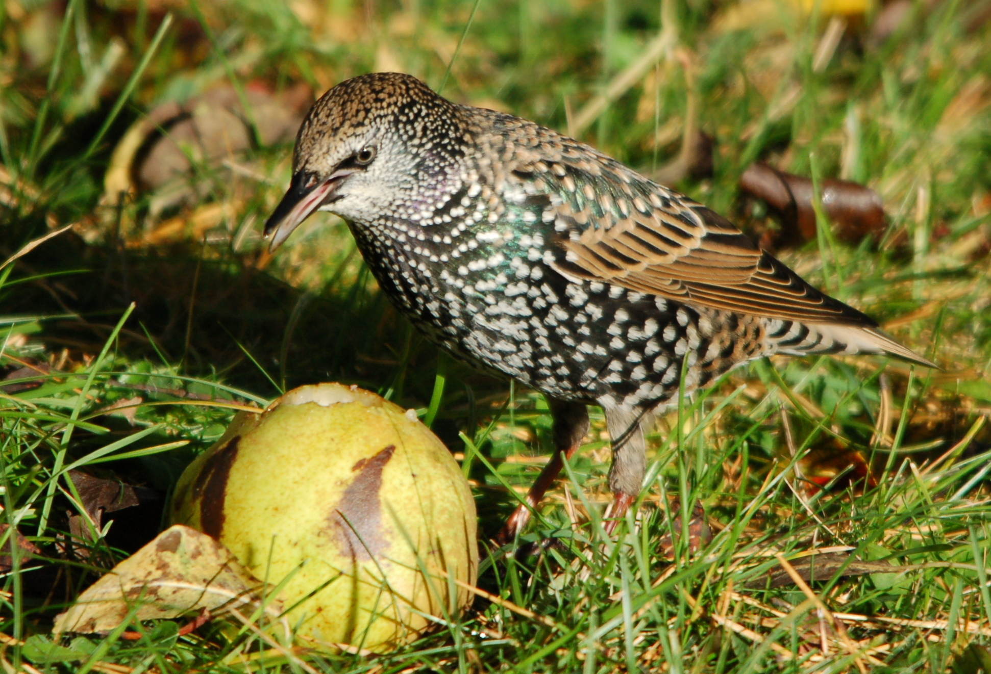 The European Starling, Common Starling or just Starling (Sturnus vulgaris)